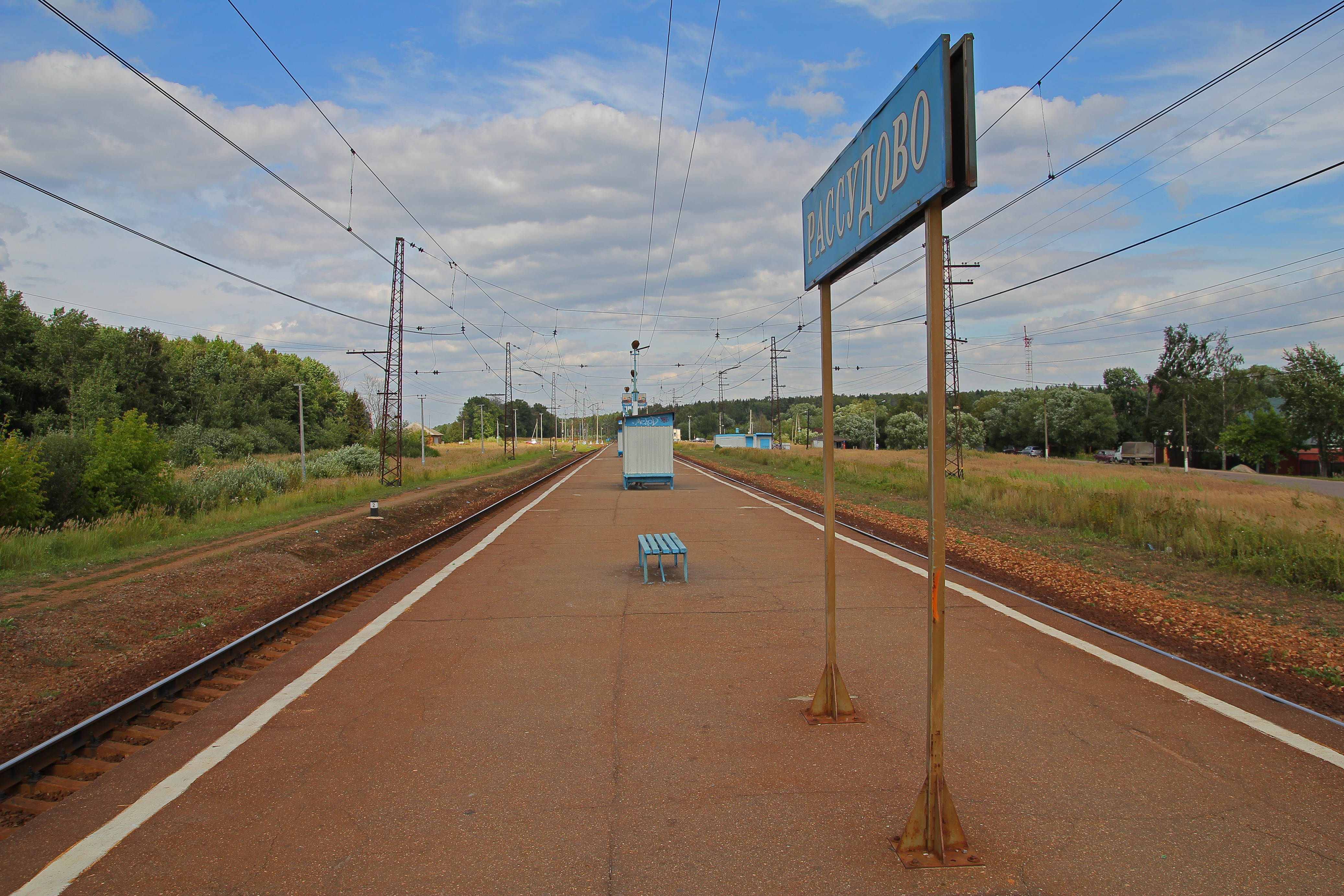 Train stop Rassudovo, Moscow (formerly Moscow Oblast), Russia